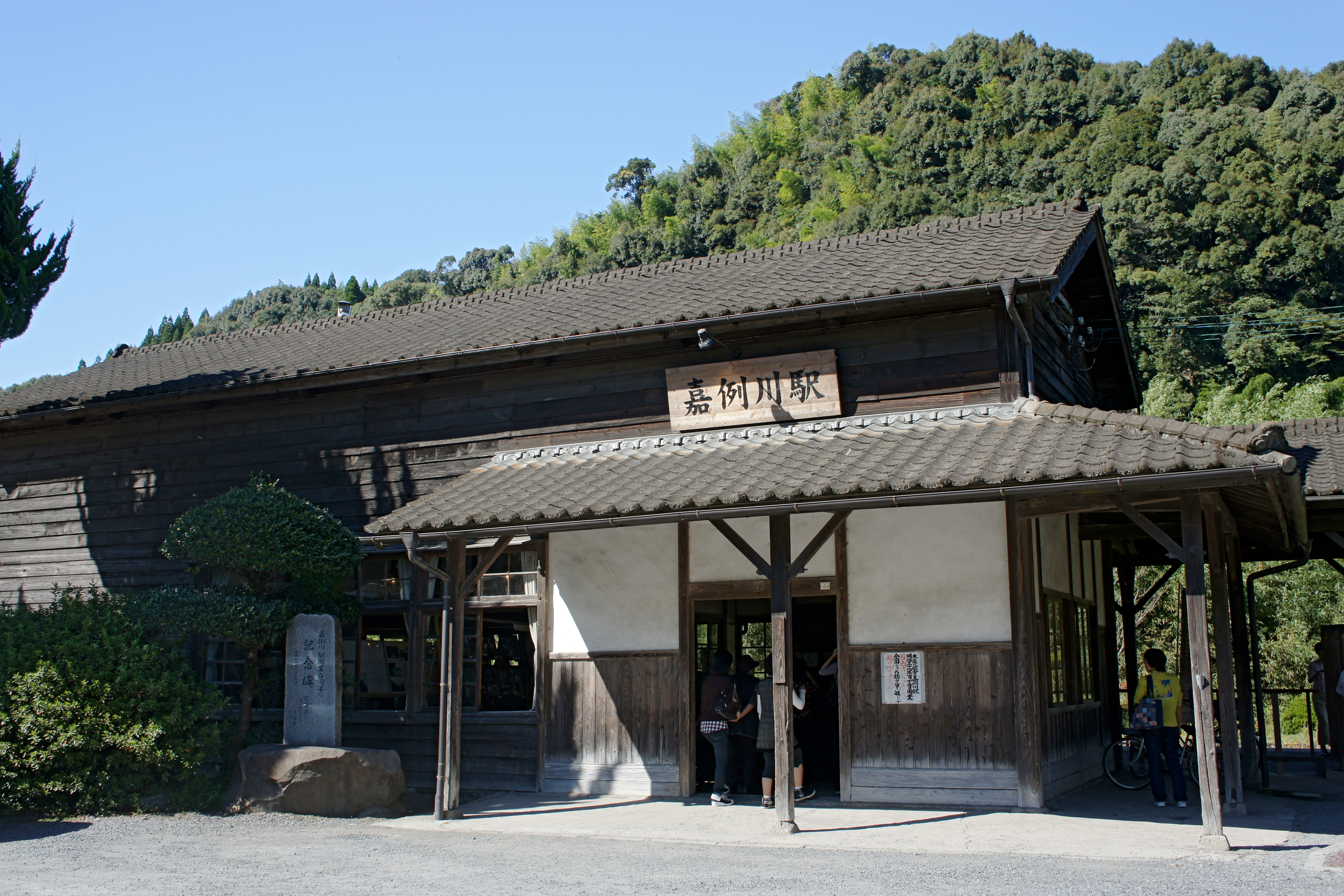 Kareigawa Station in Kirishima, Kagoshima prefecture, Japan